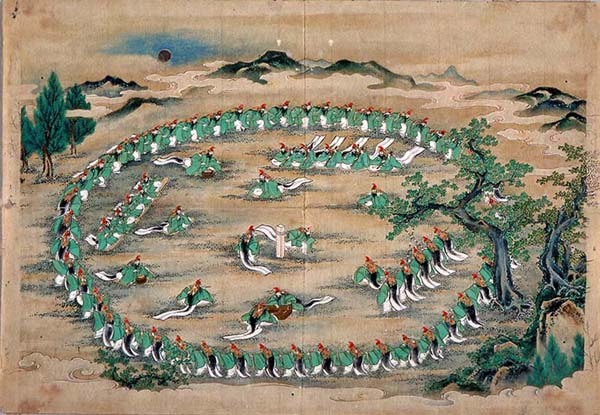 Painting of Shichishomai